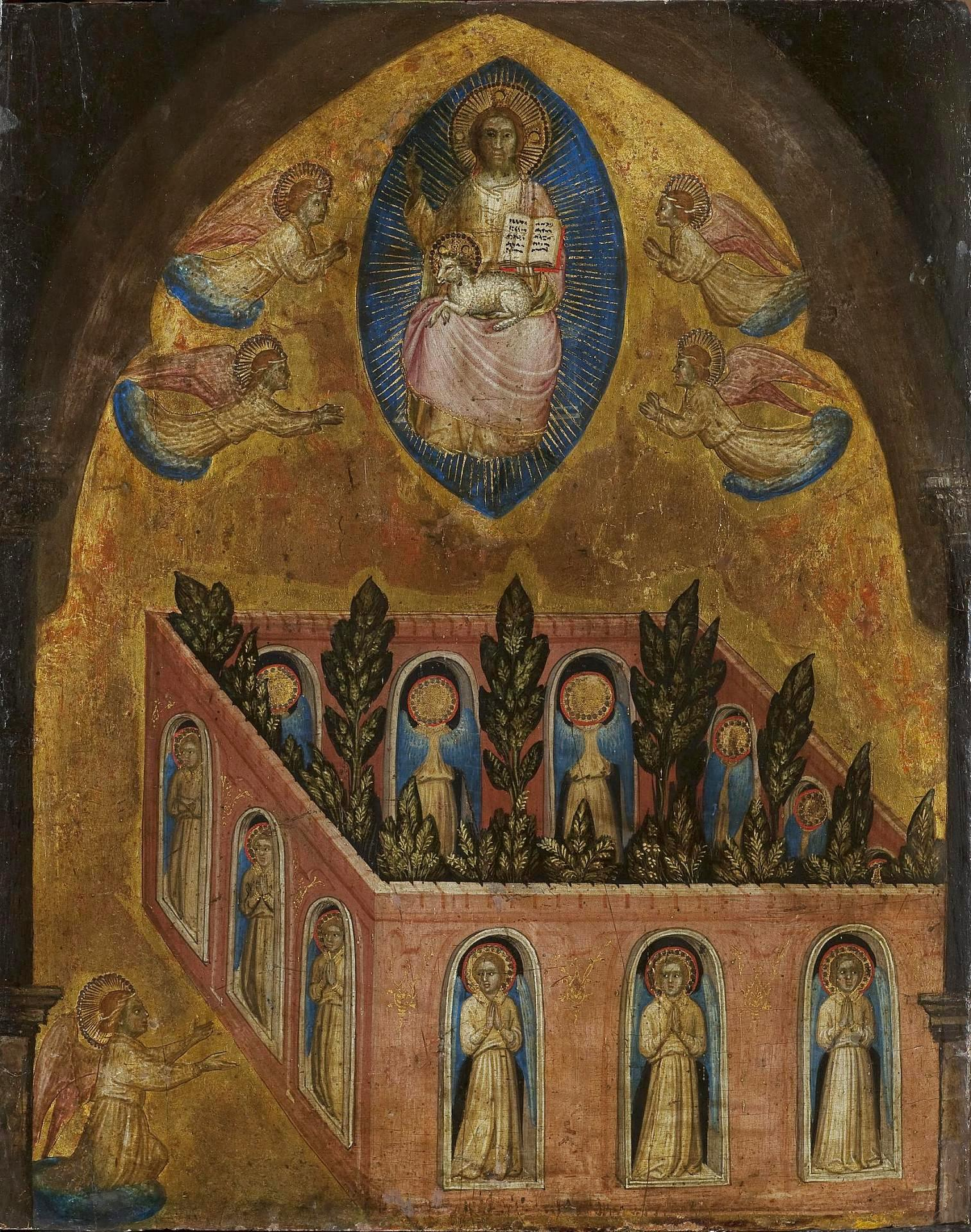 Jacobello Alberegno. The Heavenly Jerusalem, 1375-1397, State Hermitage Museum, Sanct Petersburg, RF